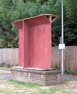 Balloon flange girder from Chepstow Railway Bridge. Now plinthed at Brunel University